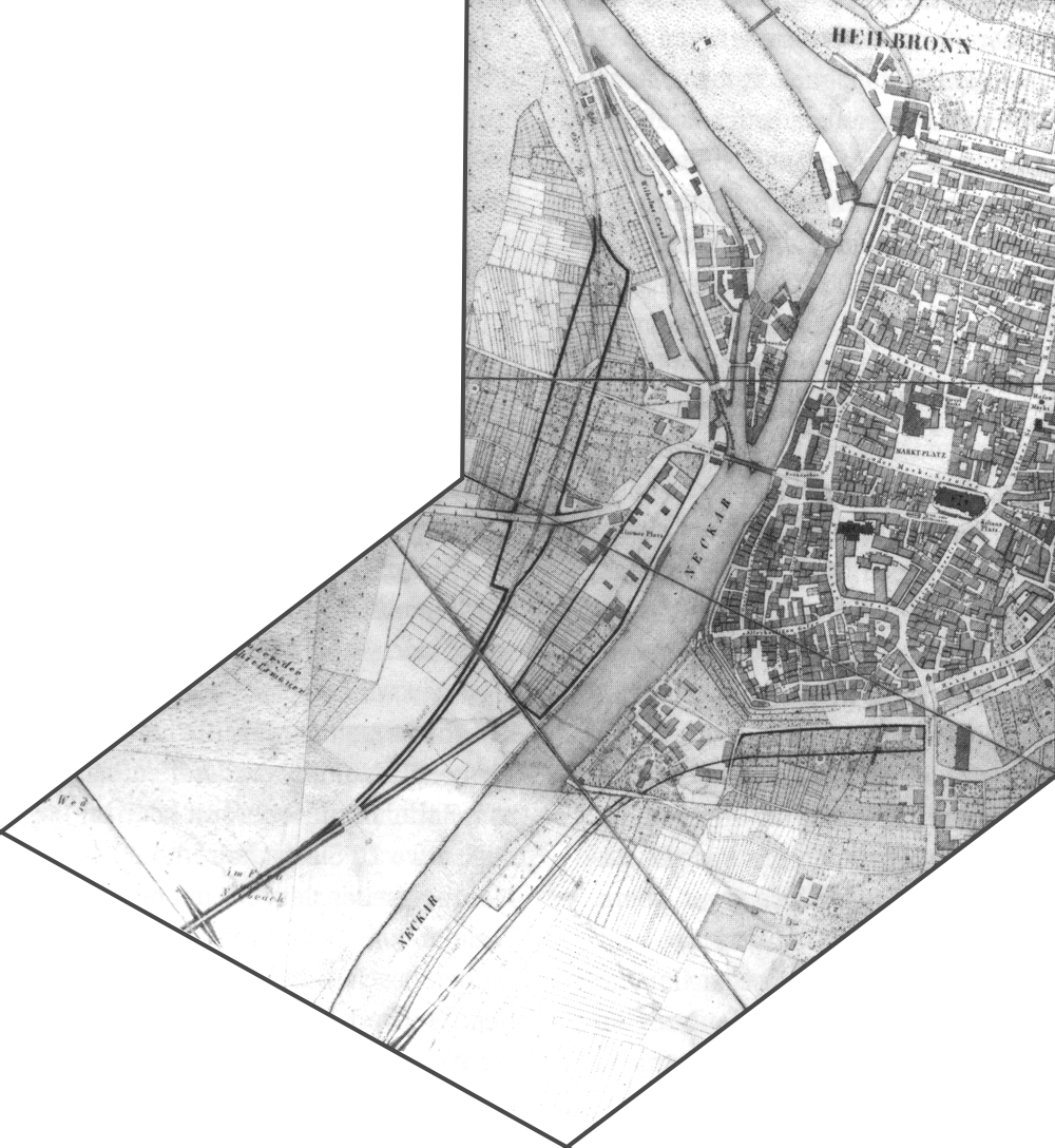 projected course alternatives regarding the Nordbahn in Heilbronn as of 1845.